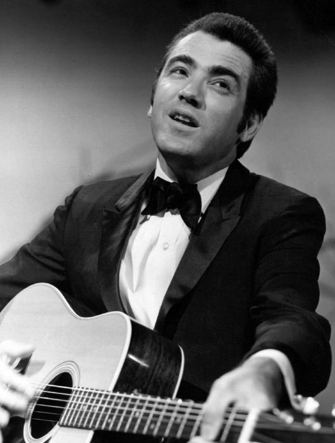 Publicty photo of musician/singer Jimmie Rodgers from a guest appearance on the television program Kraft Music Hall.